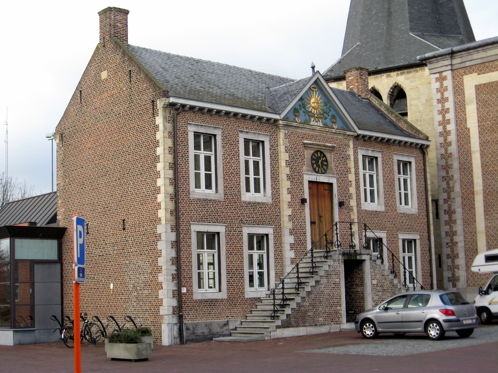 Former town hall in Zonhoven, Limburg, Belgium